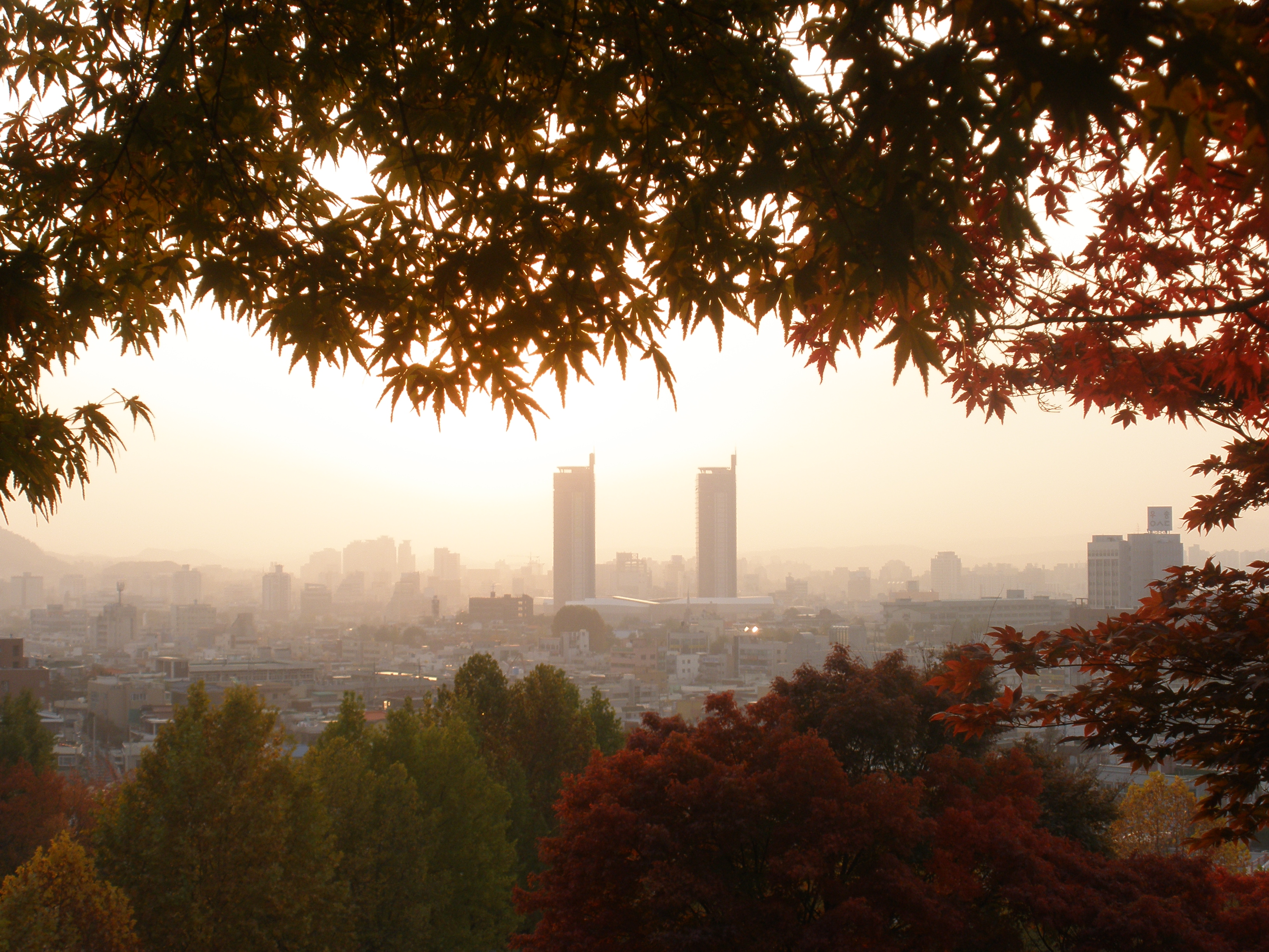 Skyline of Daejeon, South Korea.. Taken from Woosong University East Campus in 2010, and shows the Korail towers of central Daejeon., Daejeon.